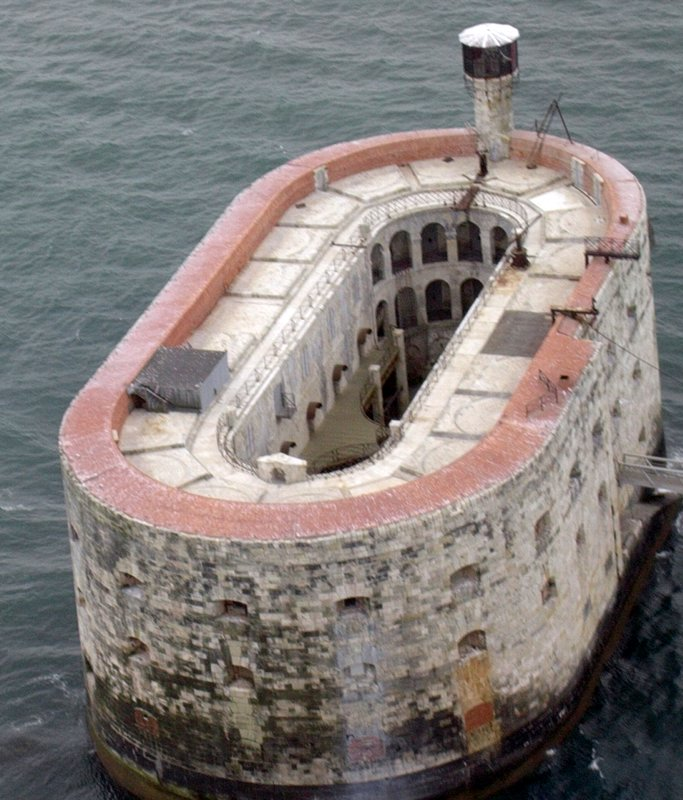 Fort Boyard - view from helicopter